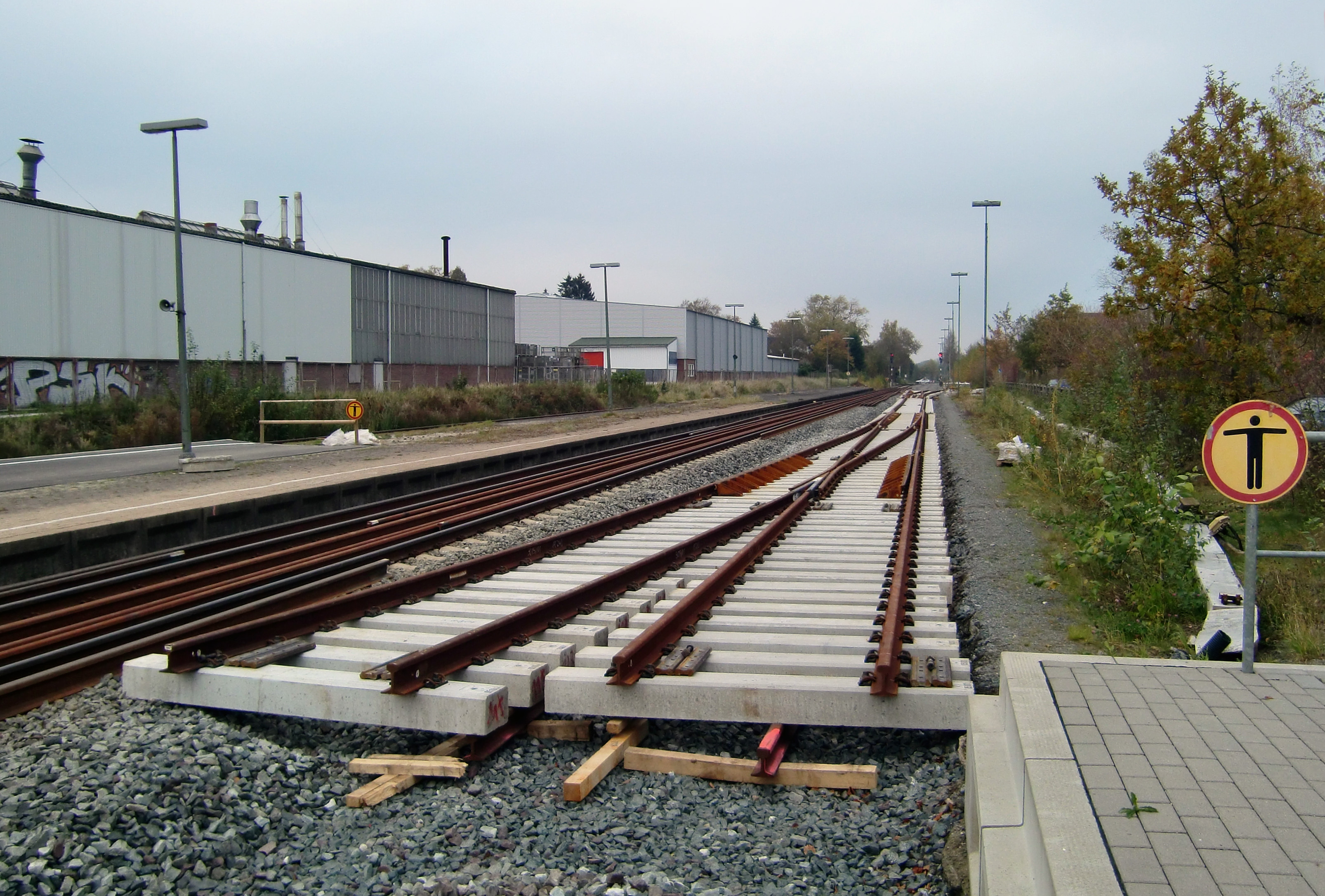 Work on the line Oldenburg–Wilhelmshaven railway in Station Rastede